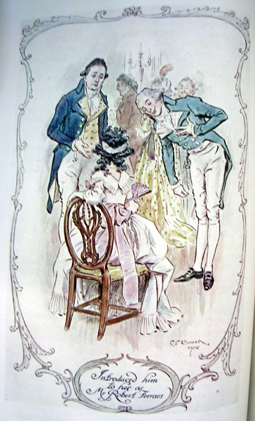 Ch 36 of Sense and Sensibility, (Jane Austen Novel): John Dashwood introduce Robert Ferrars to Elinor